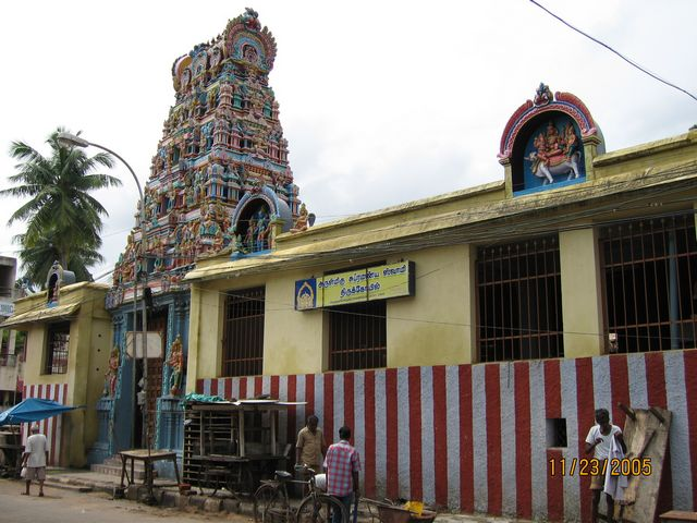 The Lord Subramanya Temple at Adambakkam, Chennai. Own work, Licensed as attribution, sharealike.